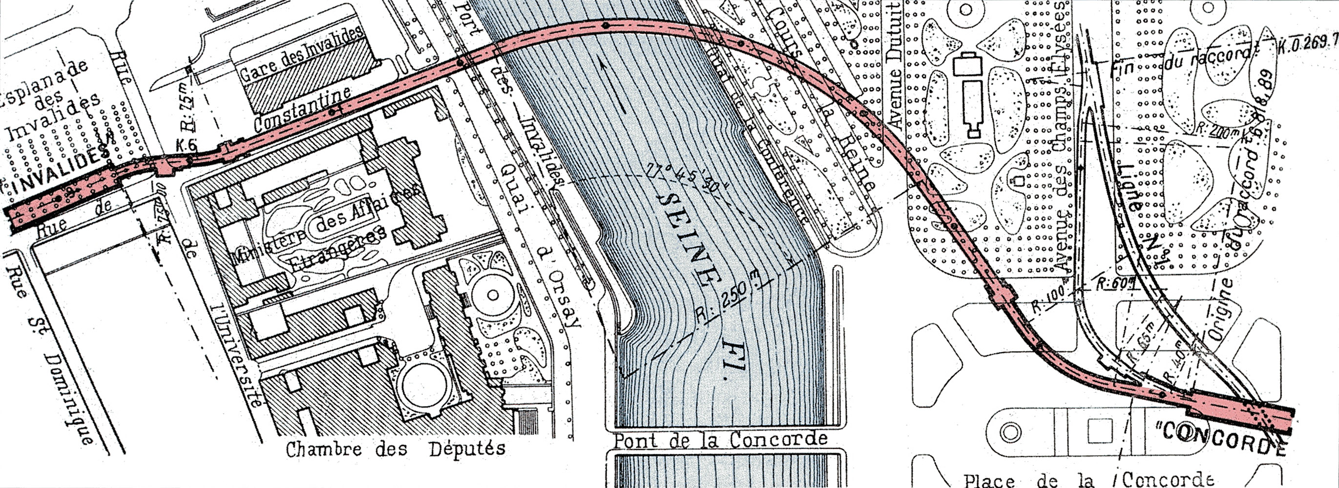 Extract from engineering plan of Paris metro line 8 crossing river Seine, in Paris, France.